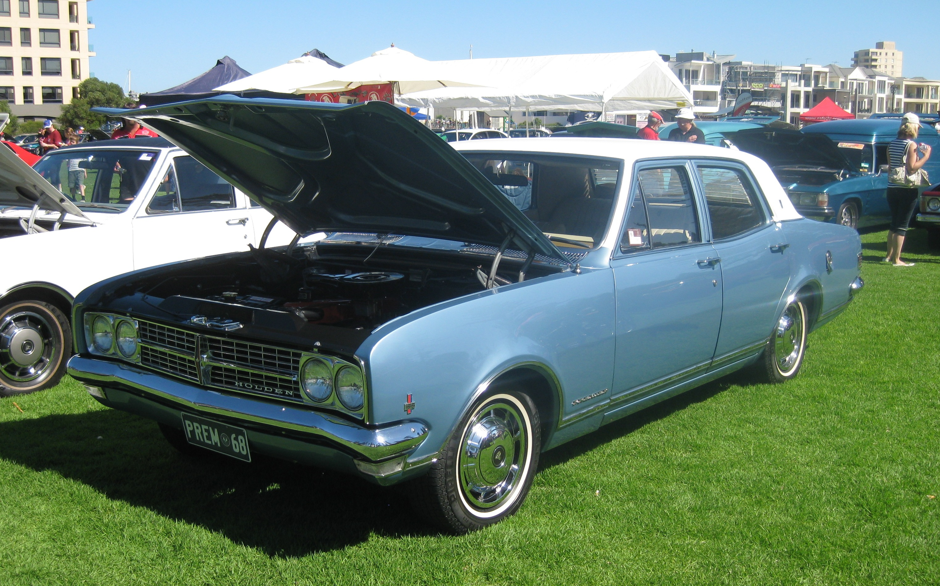 Holden HK Premier Sedan (1968-1969)